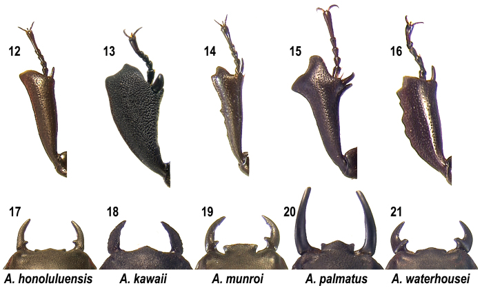 Left protibia and mandibles of Apterocyclus species. 12, 17 Apterocyclus honoluluensis 13, 18 Apterocyclus kawaii 14, 19 Apterocyclus munroi 15, 20 Apterocyclus palmatus 16, 21 Apterocyclus waterhousei.